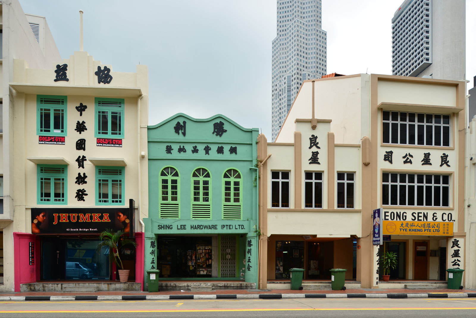 Shophouses along South Bridge Road, Singapore.